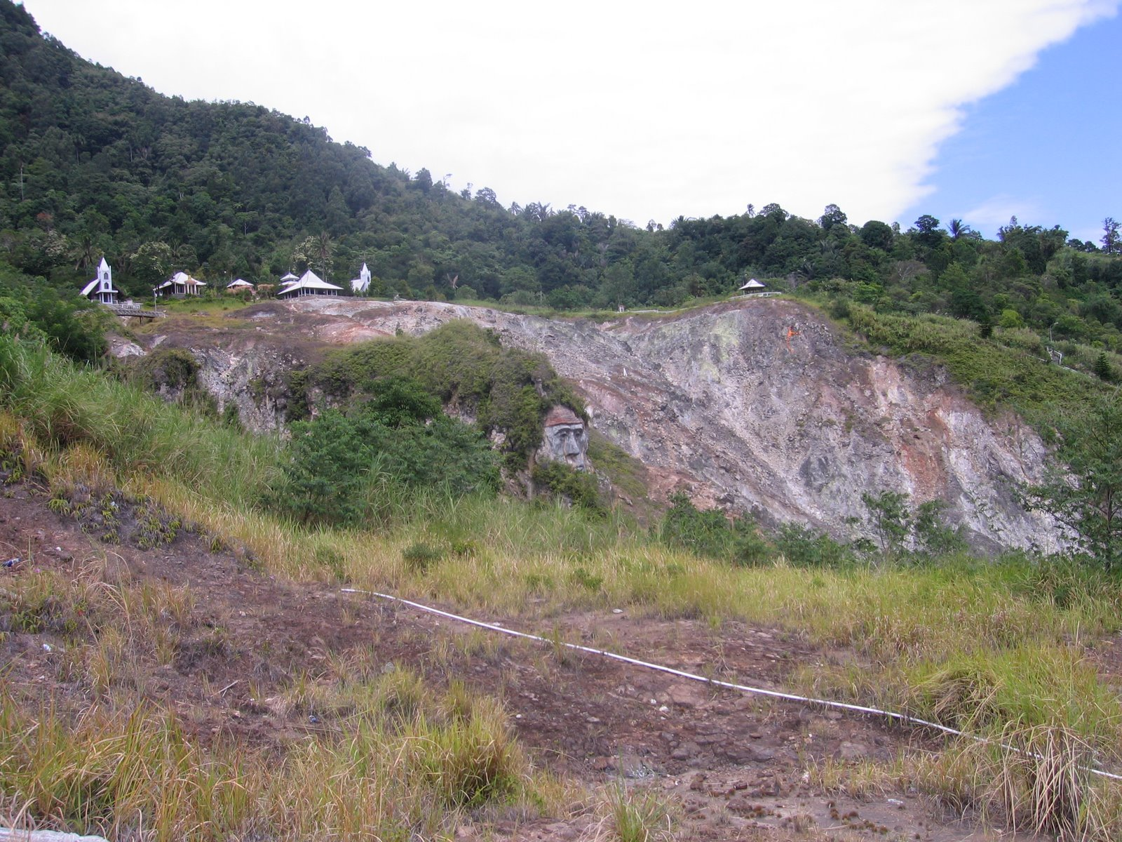 Bukit Kasih, Sulawesi, Indonesia